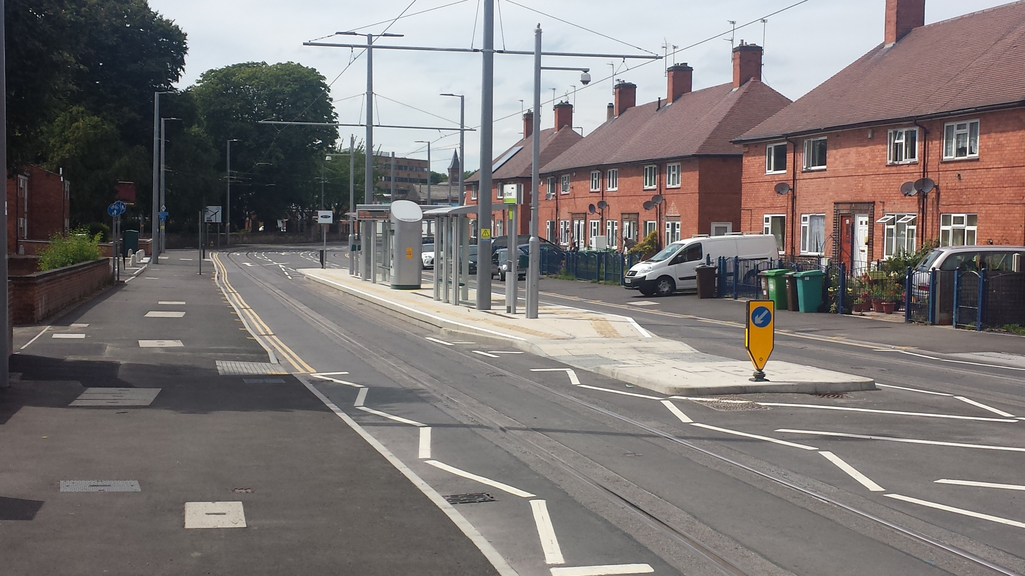 Gregory Street tram stop on NET line 1 to Chilwell, during testing and prior to opening